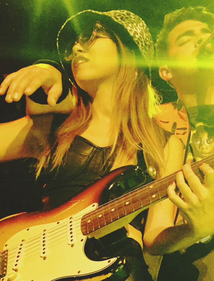 JinJoo and Joe Jonas on Stage.